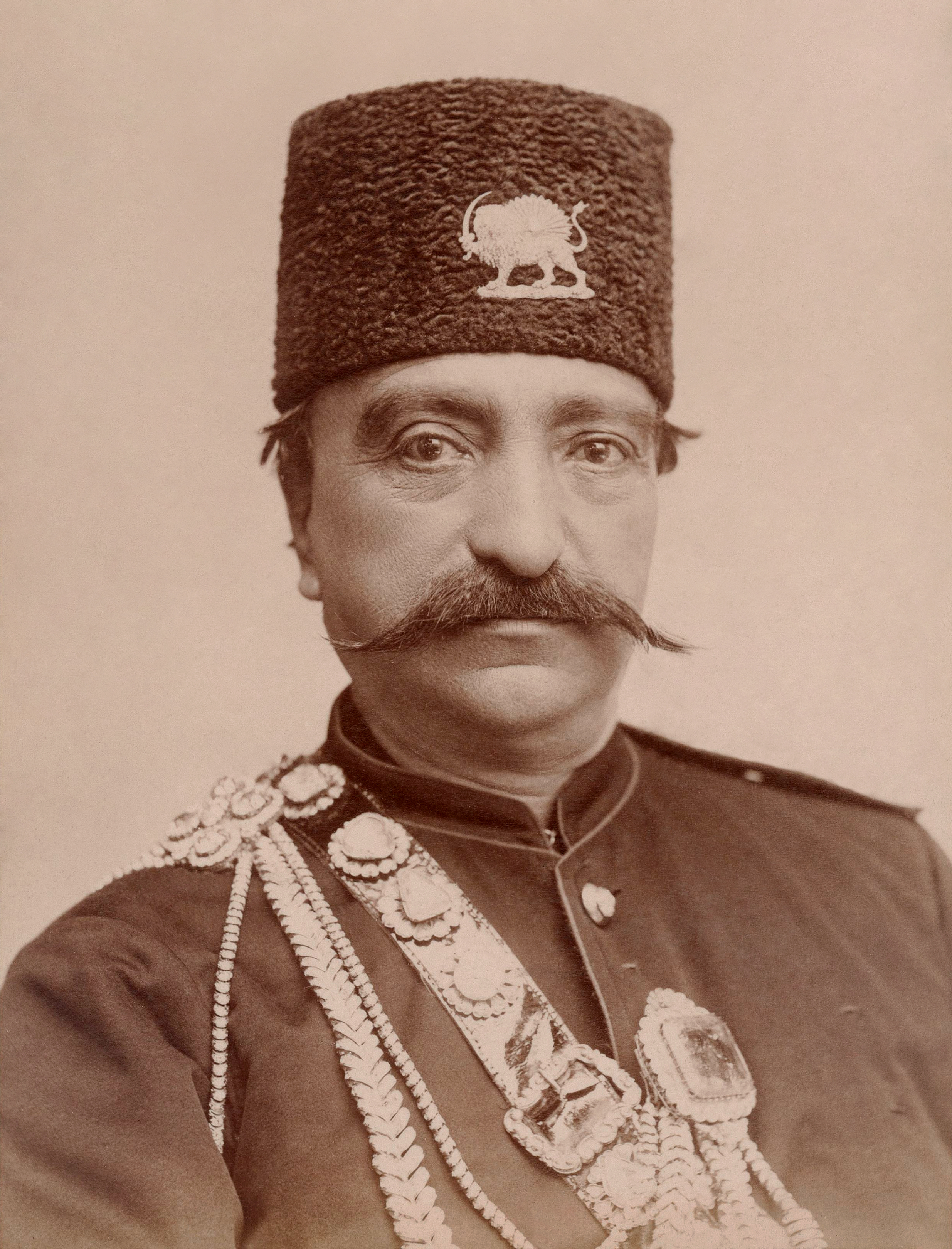 Photograph of Naser al-Din Shah Qajar, Shah of Persia. "1 photogr. pos. sur papier albuminé : d'après nég. sur verre ; 14,5 x 10,5 cm"